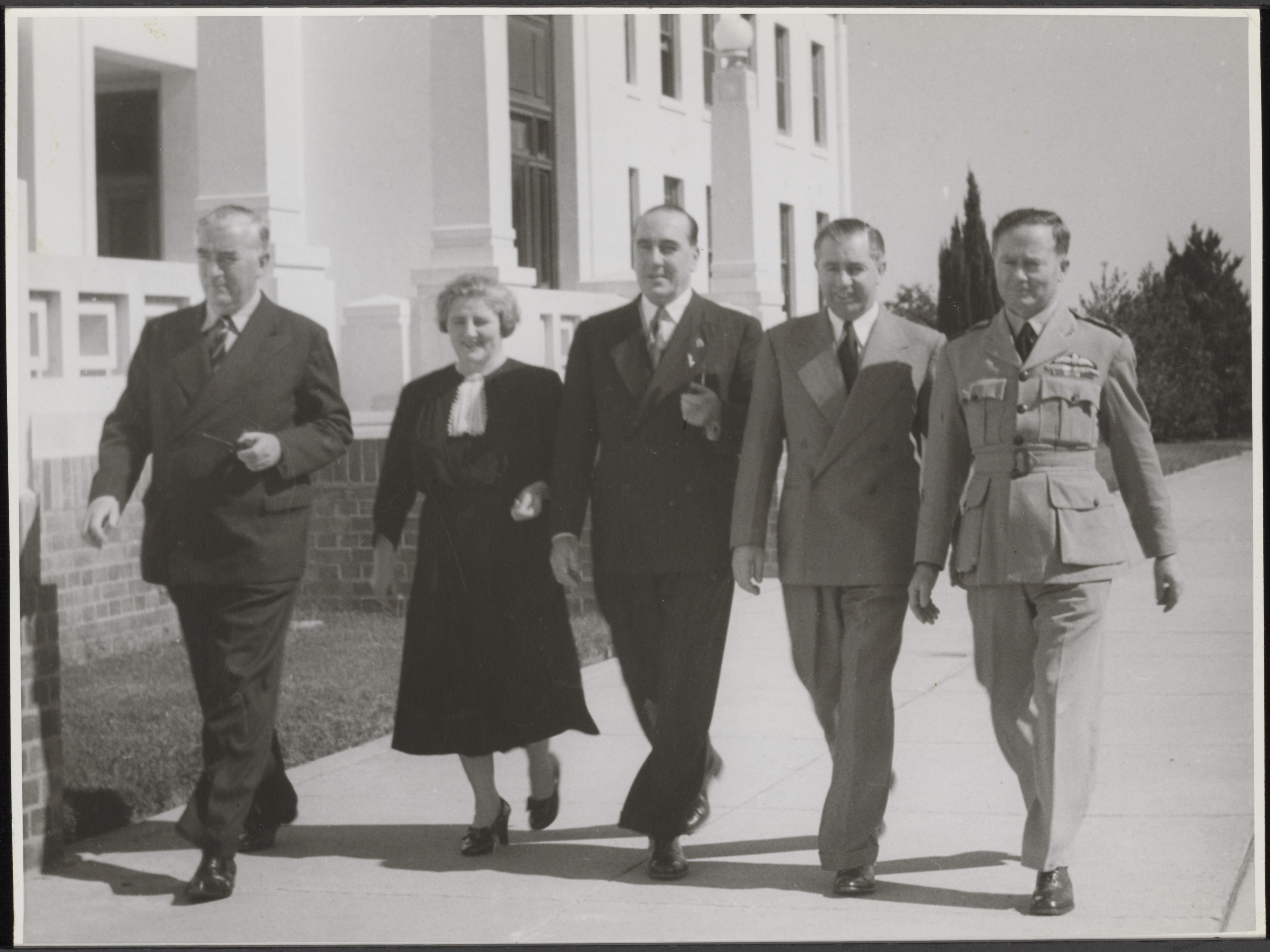 Sir Robert Menzies, Dame Enid Lyons, Eric Harrison, Harold Holt and Thomas White outside (Old) Parliament House, Canberra.